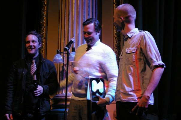 Jazz Record of the year, Swedish Manifest Awards for independant record labels. Winner Ludvig Berghe Trio "An Unplayed Venue" (Moserobie)